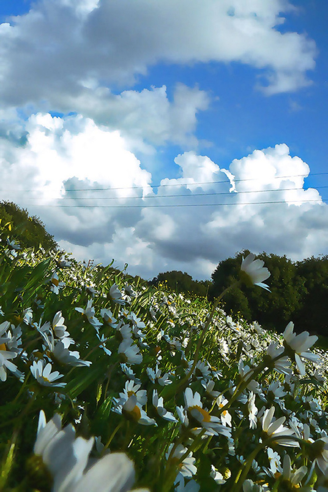 A field of white flowers in Lebanon, and Clouds have started to gather in the sky above